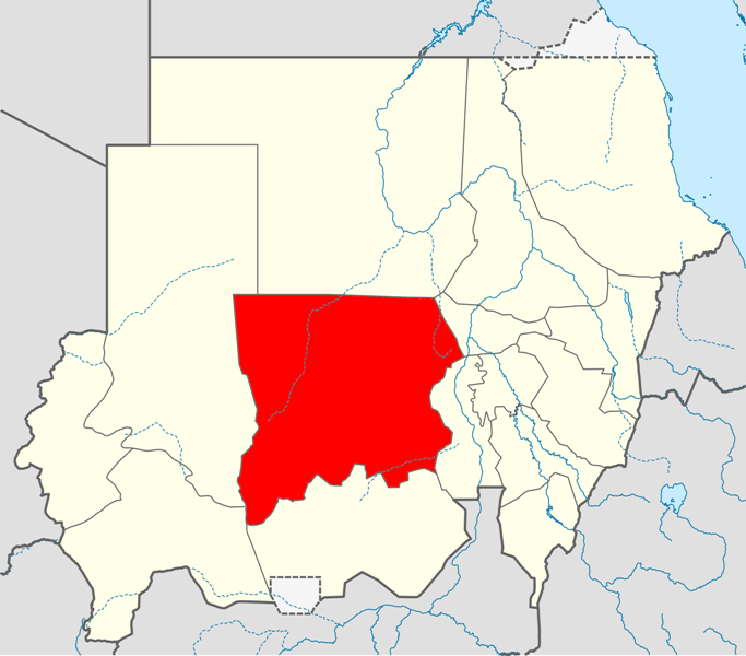 Locator map of North Kurdufan state, in the Kurdufan region — in post-2011 Sudan. Locator map according to Protocol of Comprehensive Peace Agreement (In 2005 territory of West Kordofan divided between North and South Kurdufan States).